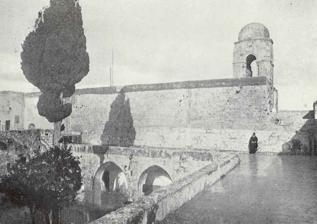 Cloister of Belmont Abbey. This has been photographed by Désiré Louis Camille Enlart (1862-1927) in December 1921.